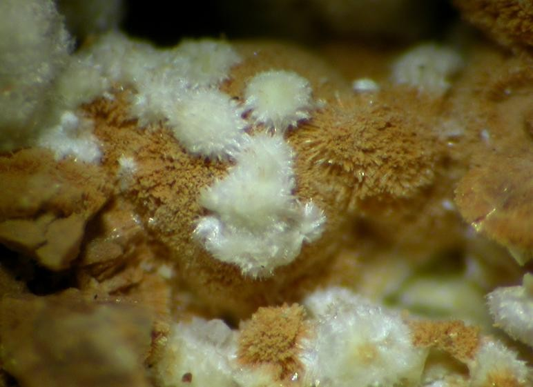 Meurigite-K, Ruifrancoite Locality: Sapucaia Mine, Sapucaia do Norte, Galiléia, Doce valley, Minas Gerais, Southeast Region, Brazil (Locality at ) Yellowish-white hairy Meurigite on brown Ruifrancoite spheres. Field of view 4 mm. Specimen and photo Leon Hupperichs.